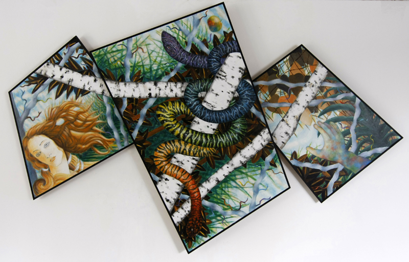 Birth